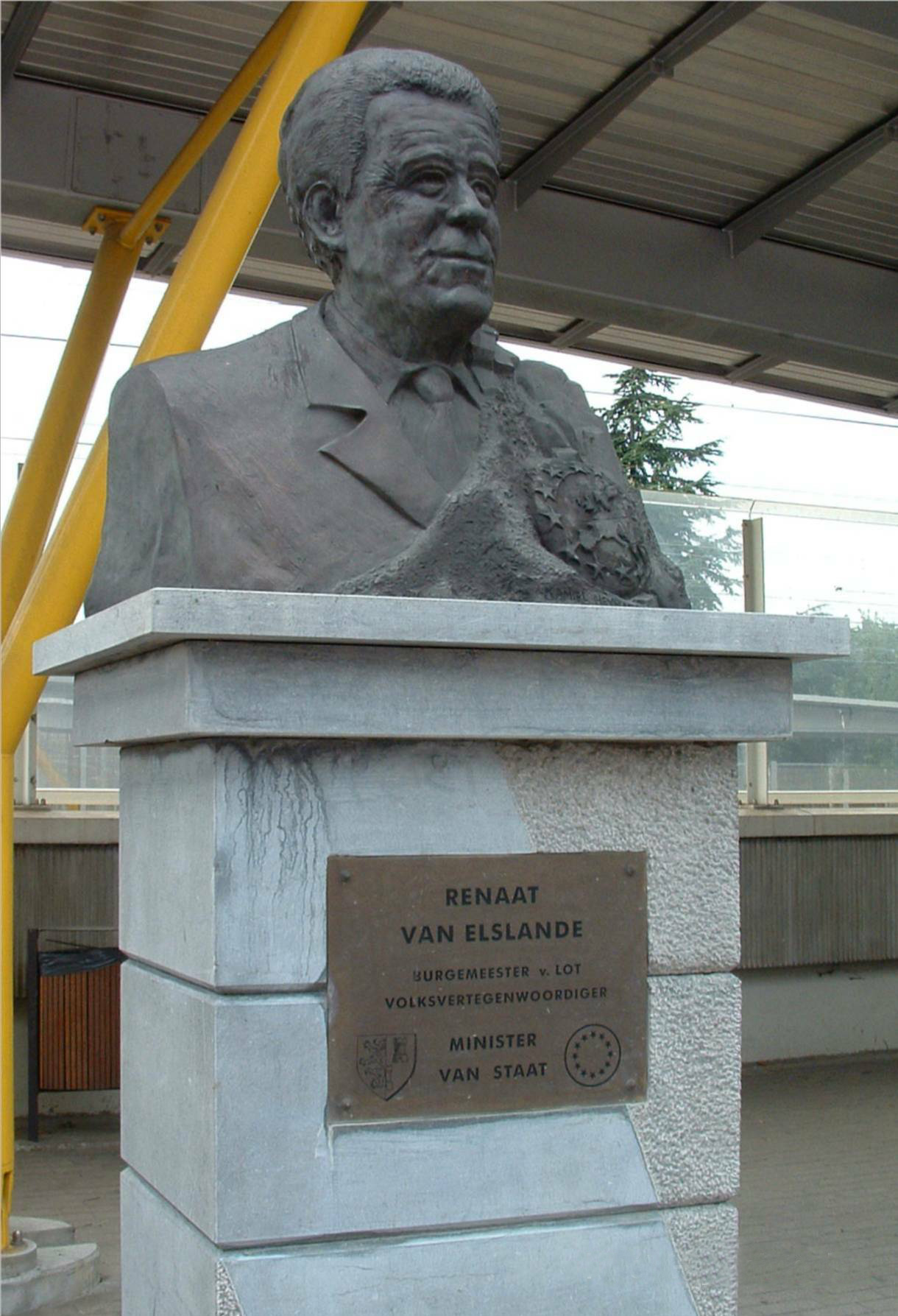 02/08/05 - Buste of Renaat Van Elslande, mayor of Lot and Minister of State